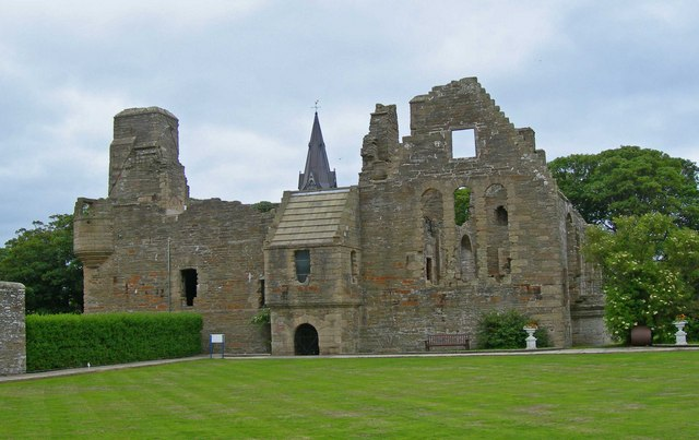 Ruined Earls' Palace viewed over the south lawn, Kirkwall The steeple in the image centre top actually belongs to a separate building to the northeast, St Magnus Cathedral.